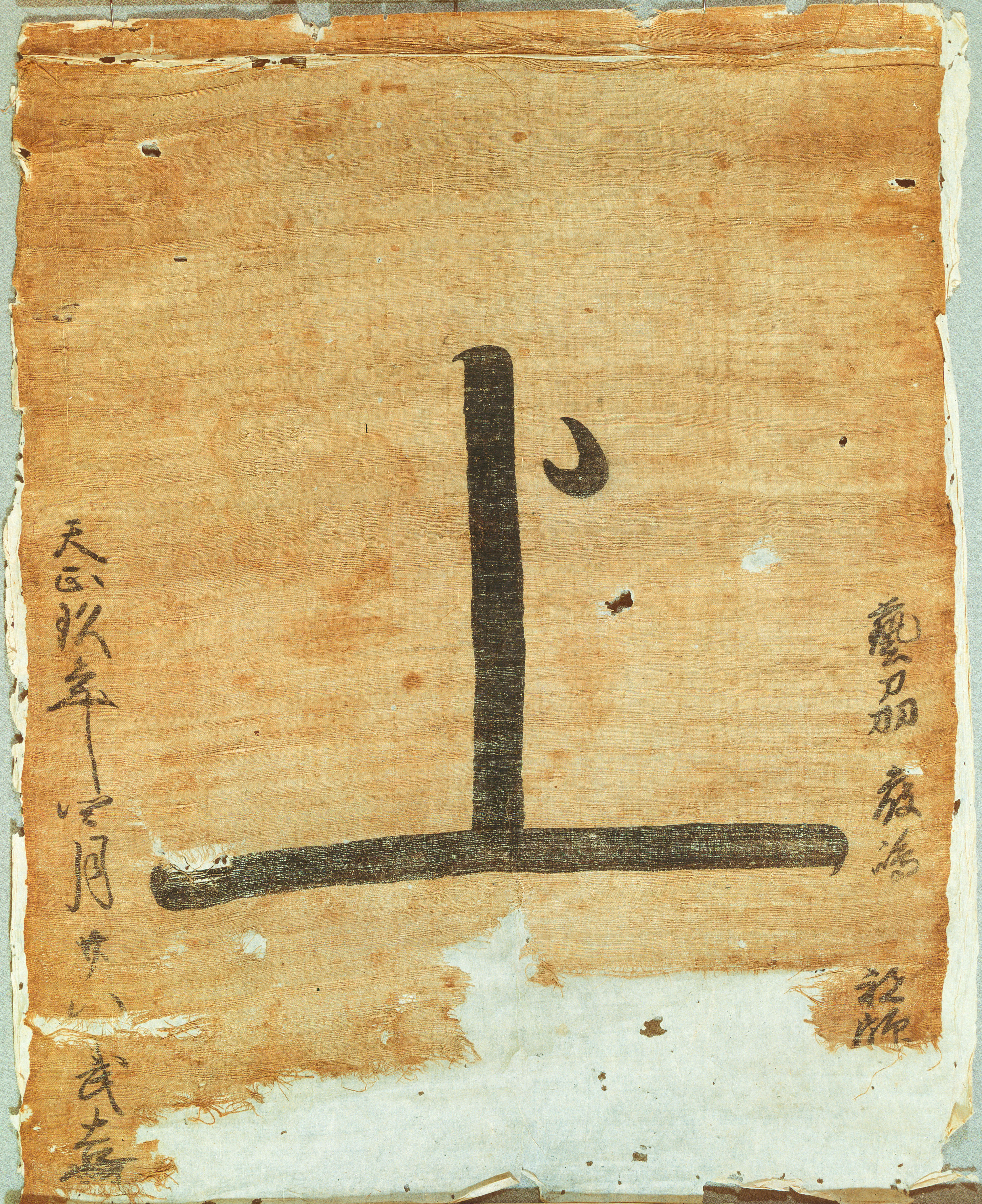 Noshima Murakami flag pass (53.4 x 42.1 cm), Yamaguchi Prefectural Archives, Yamaguchi, Yamaguchi, Japan